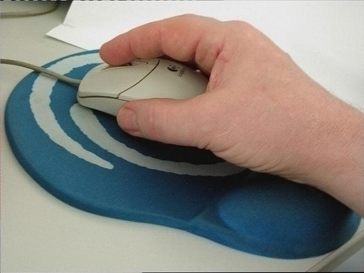 The original Picture is converted with software from Richard Russell, it is reconstructed from the picture with the chroma dots from PAL color pictures on b/w tv